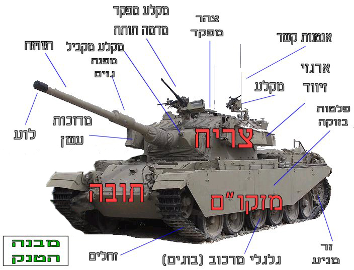 Improved Centurion tank in the Israeli Armored Corps museum in Latrun - Parts of the tank